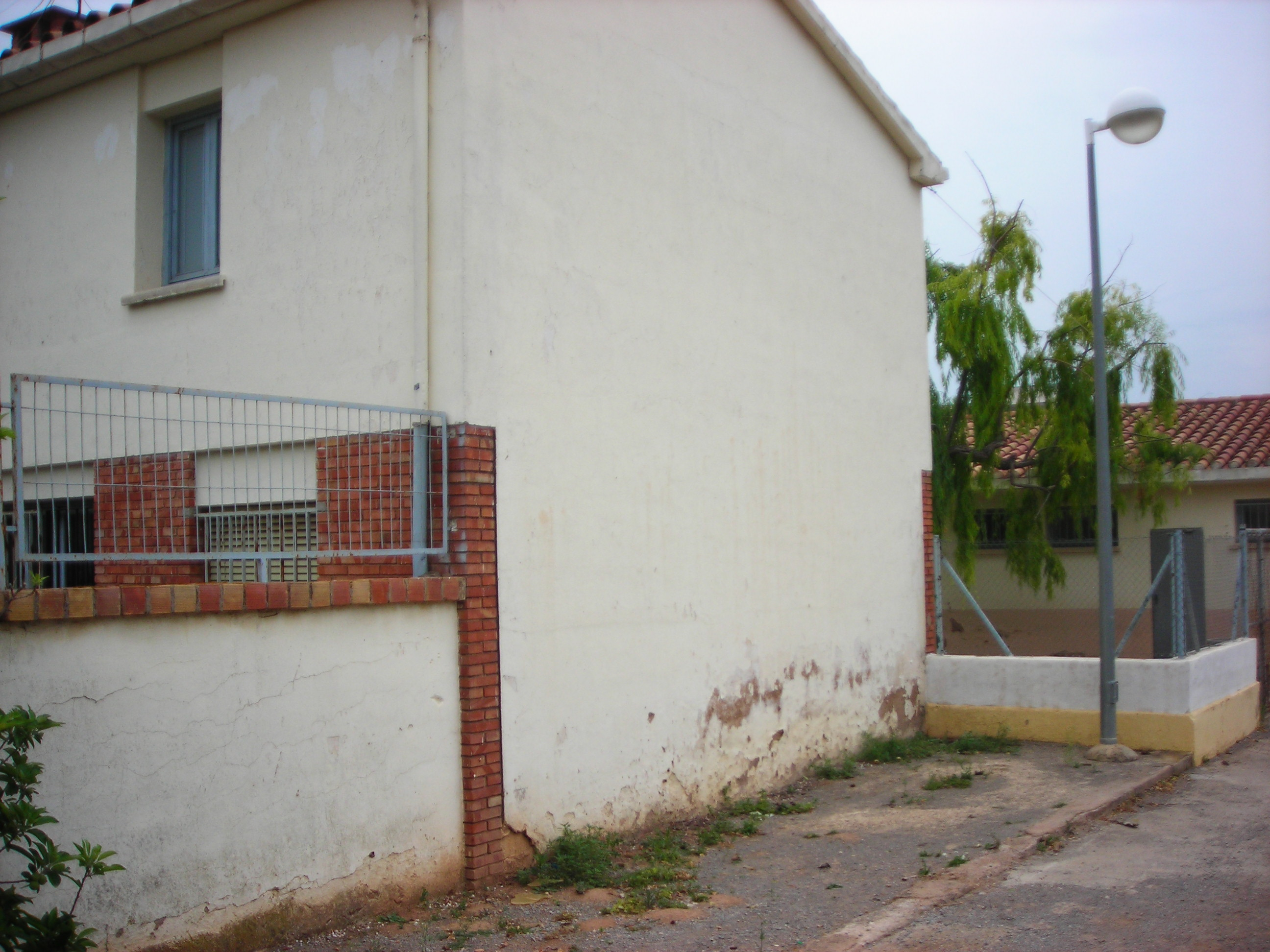 Geldo's old school